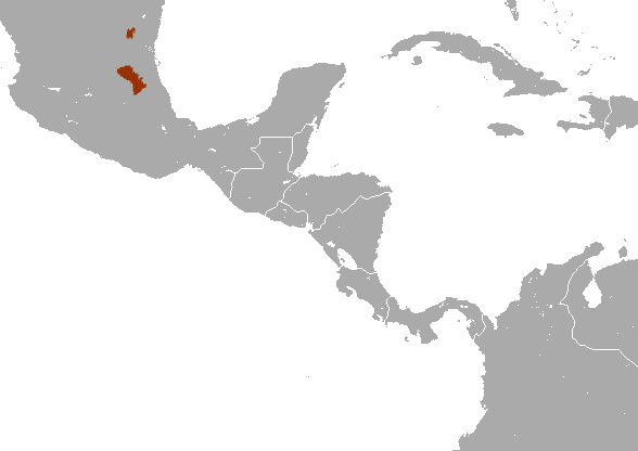 Grizzled Small-eared Shrew (Cryptotis obscura) range